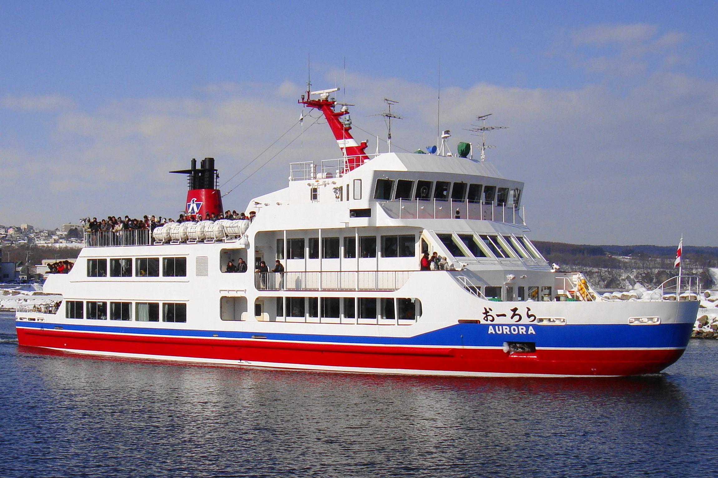 Abashiri Drift Ice Sightseeing & Icebreaker Ship "Aurora"